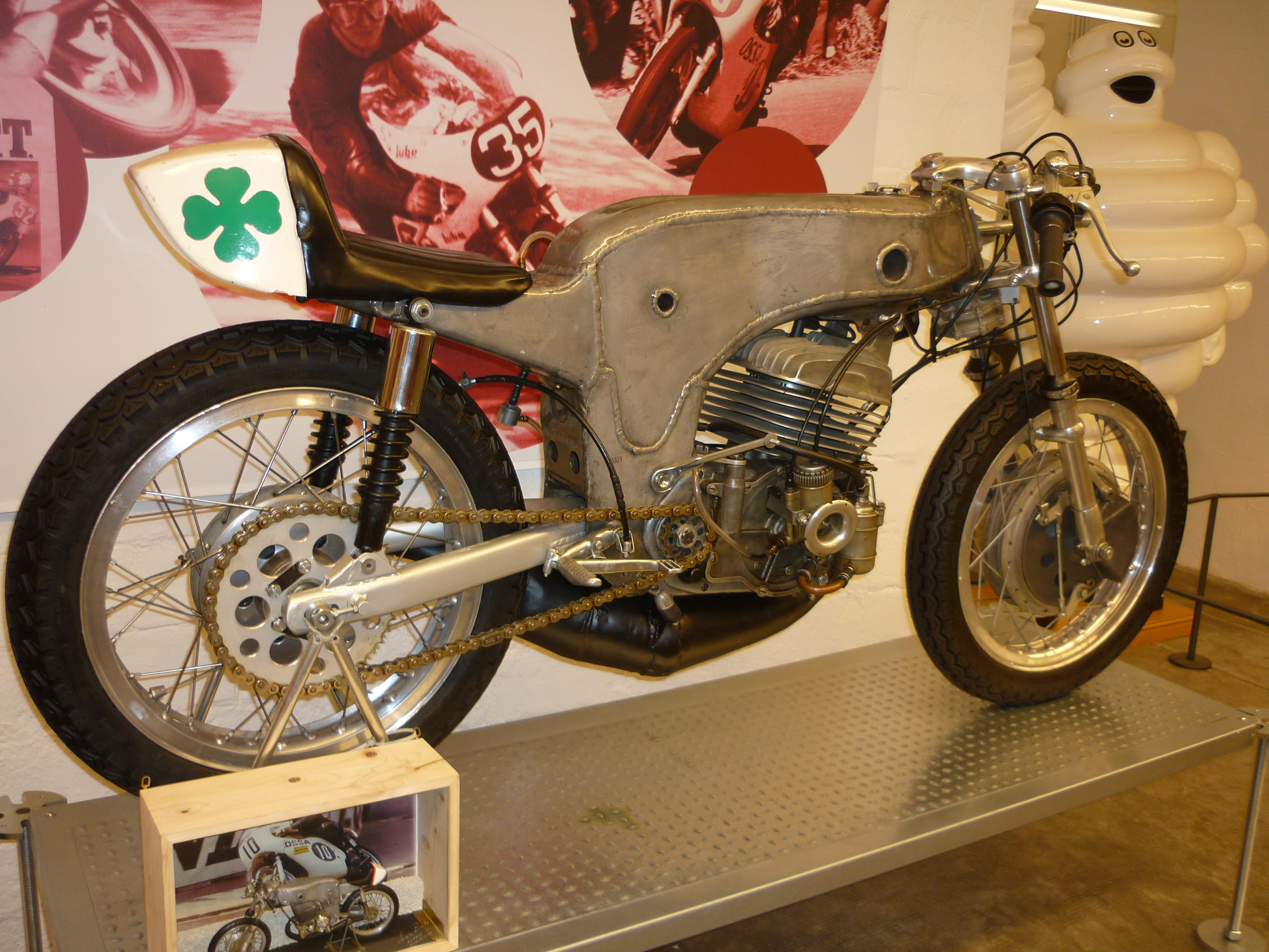 OSSA Monocoque 250cc, 1968. Created by Eduard Giró and ridden by Santiago Herrero, this bike was regarded as the fastest single cylinder motorbike at the time and won several Grand Prix between 1968 and 1970. Herrero died when he crashed while riding it at 1970 Isle of Man TT.